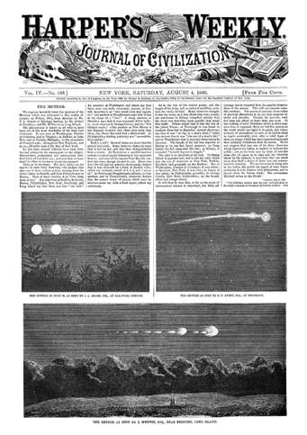 Journal "Harpers Weekly" from July 1860